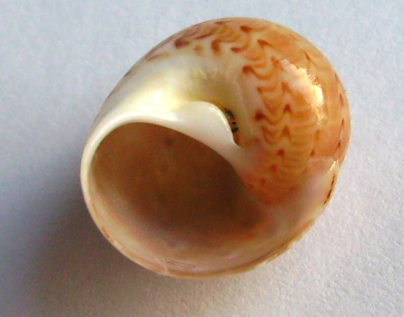 Tanea zelandica (necklace shell) (base) dredged from the east coast of Northland , New Zealand. This work has been released into the public domain by its author, Graham Bould. This applies worldwide. In some countries this may not be legally possible; if so: Graham Bould grants anyone the right to use this work for any purpose, without any conditions, unless such conditions are required by law.